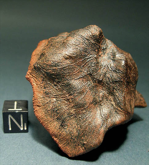 77g oriented individual of the Millbillillie eucrite meteorite